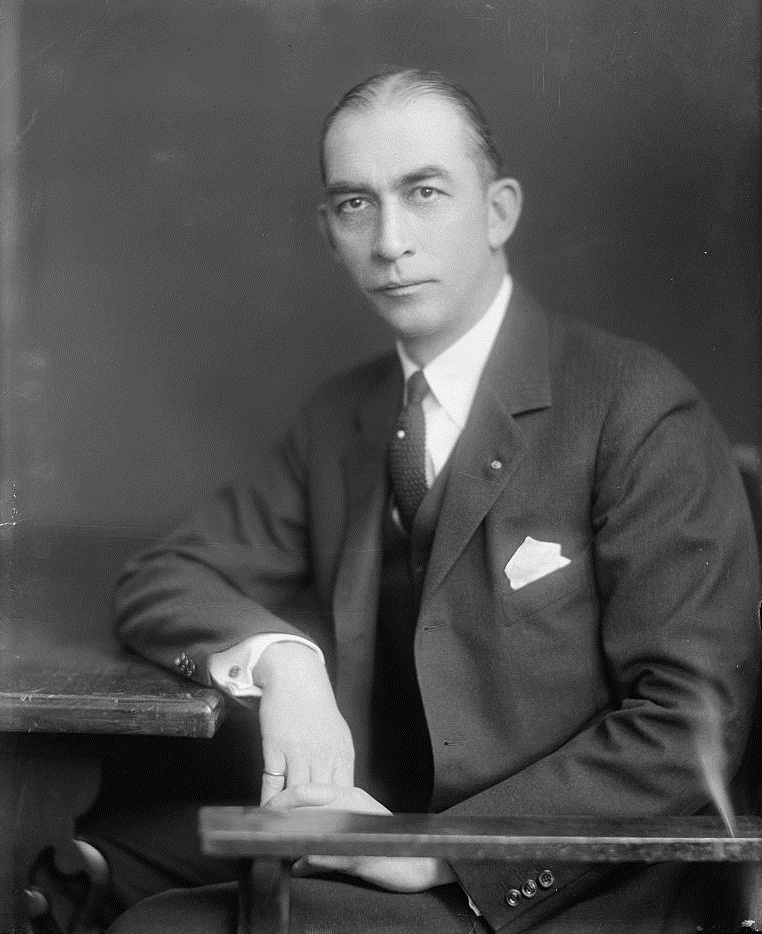 Chester C. Bolton, congressman from Cleveland, Ohio.